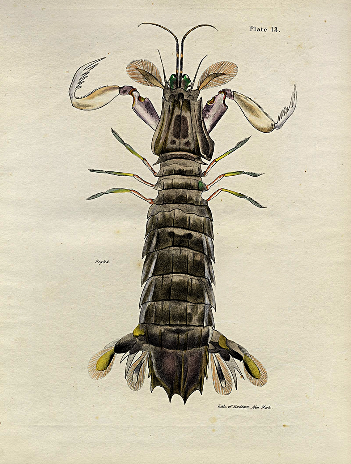 Crusticae plate